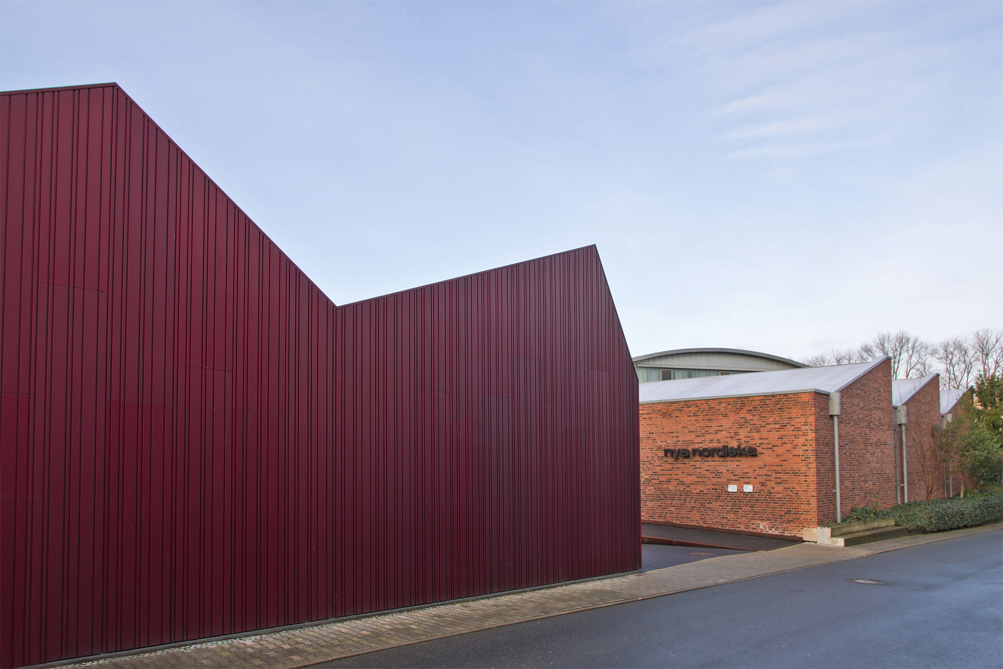 Facade part of buildings from the company "Nya Nordiska" in Dannenberg (Elbe).